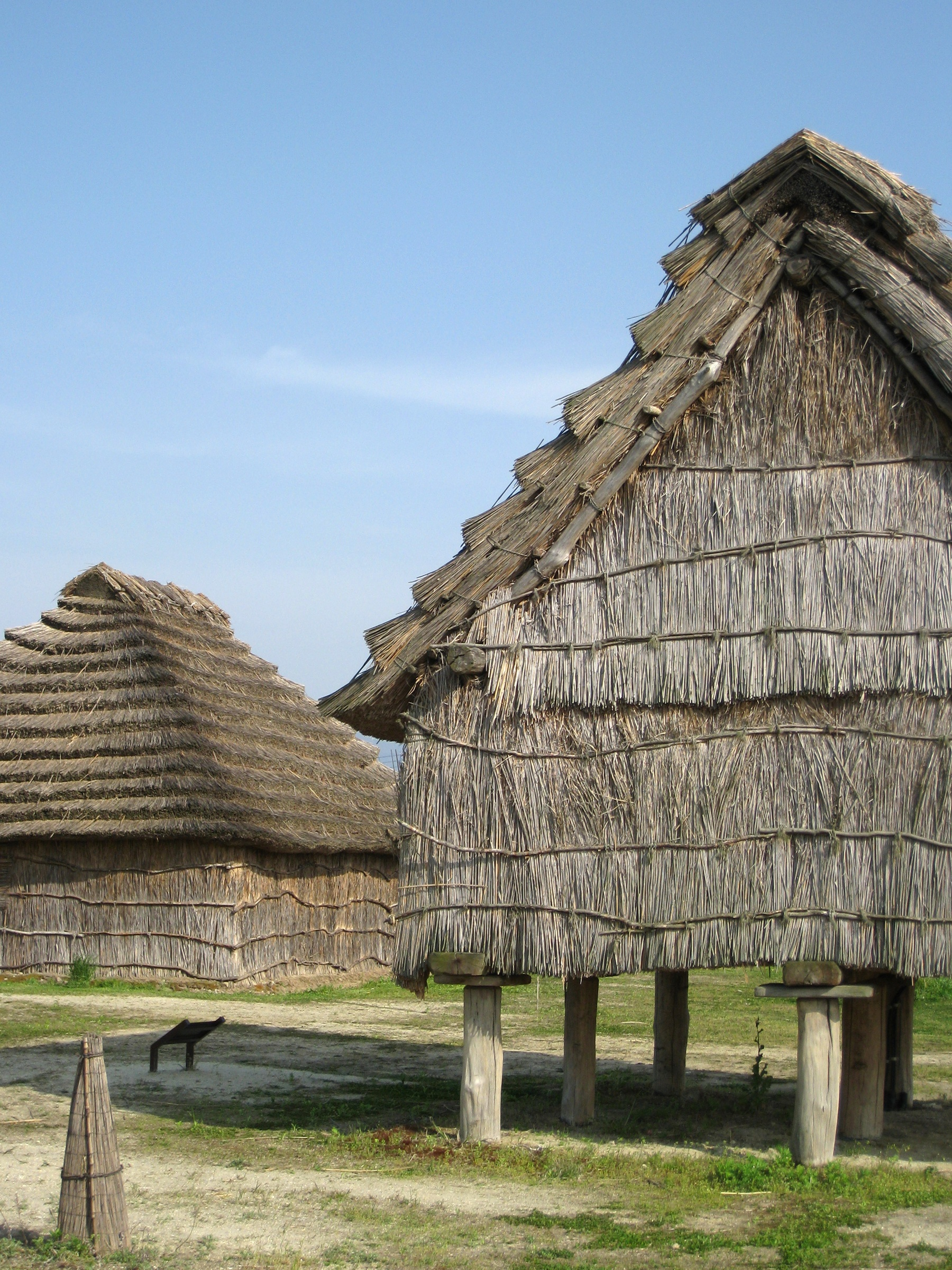 House No. 7 and No. 11 of Tendo City Nishinumata Site Park, This Photo Taken in May 2, 2009